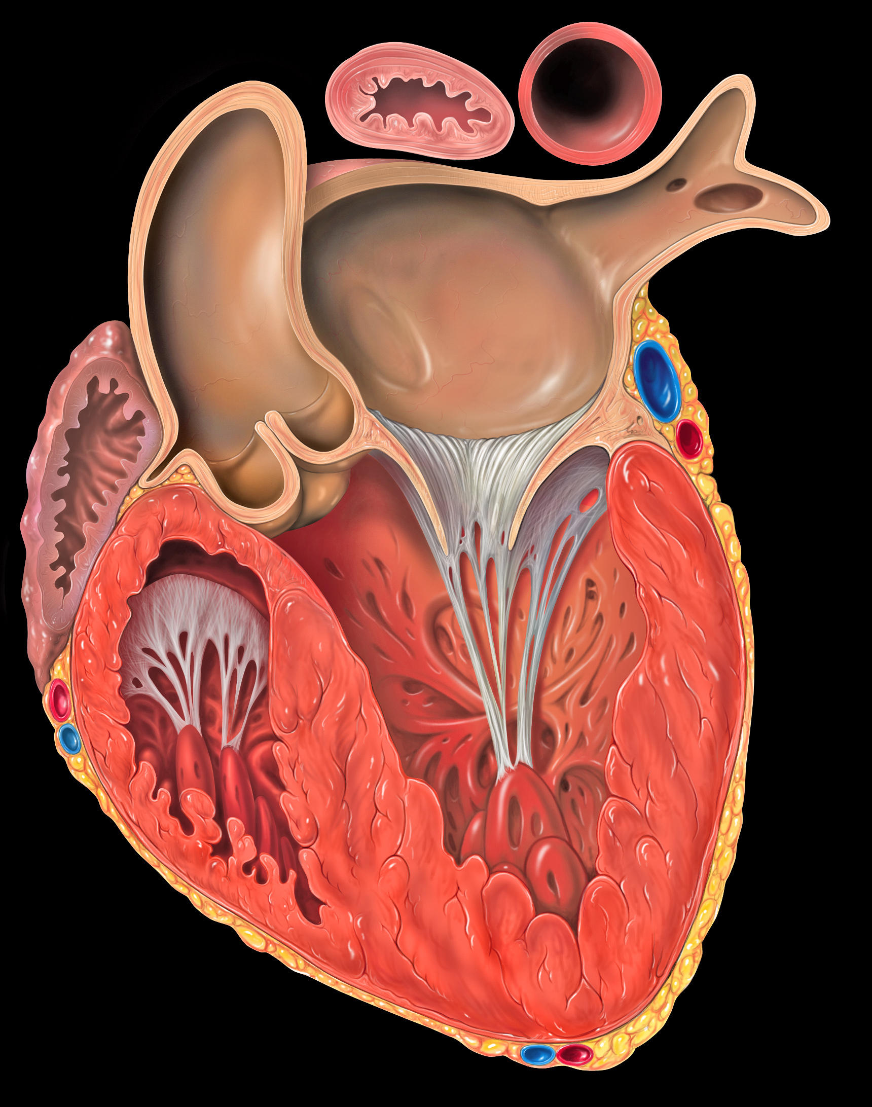 Heart left ventricular outflow track